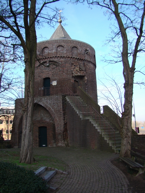 Impressions of Roermond, Netherlands